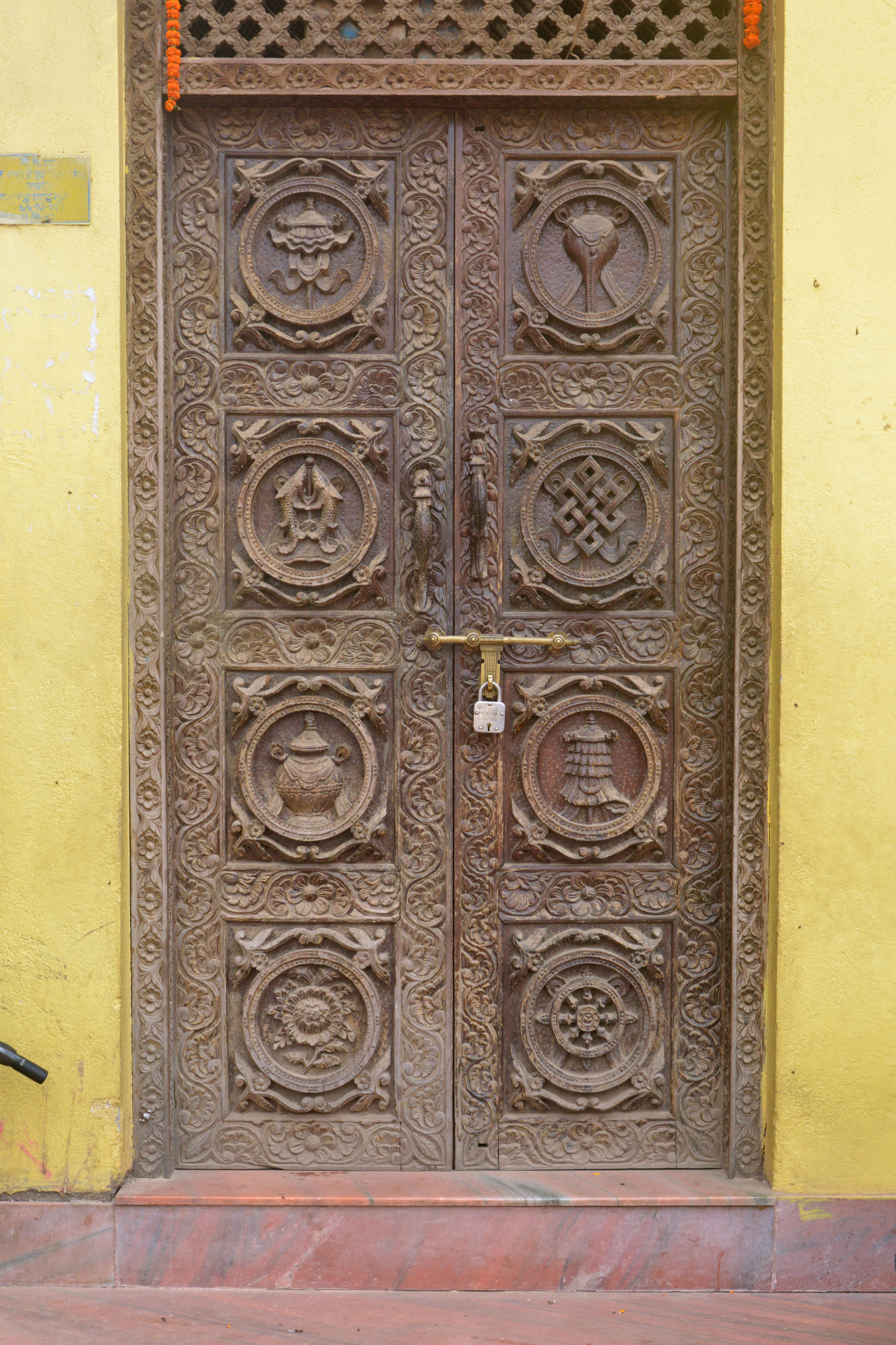 Carved wooden door with 8 auspicious signs (lAshtamangala) design, Nepal